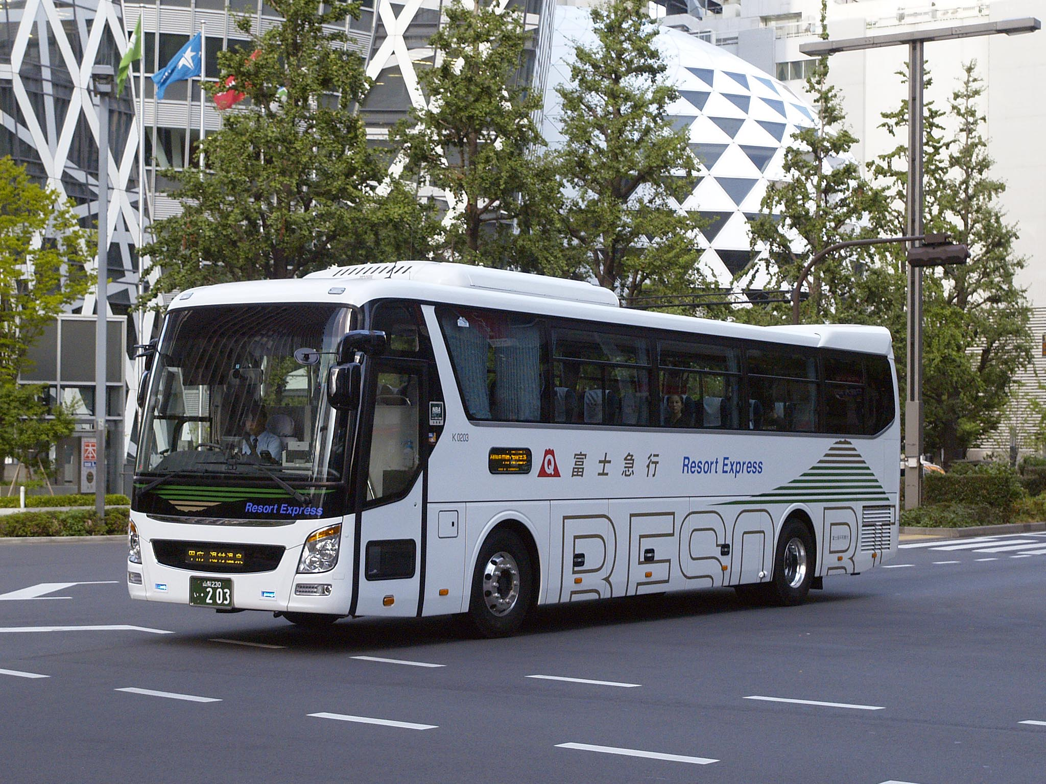 Hyundai Universe LDG-RD00 for Fujikyu Heiwa Kanko, as Chuo Expressway Bus between Shinjuku and Kofu route. License plate: YNY230 I-203 Place: Nishi-Shinjuku, Shinjuku Ward, Tokyo, Japan